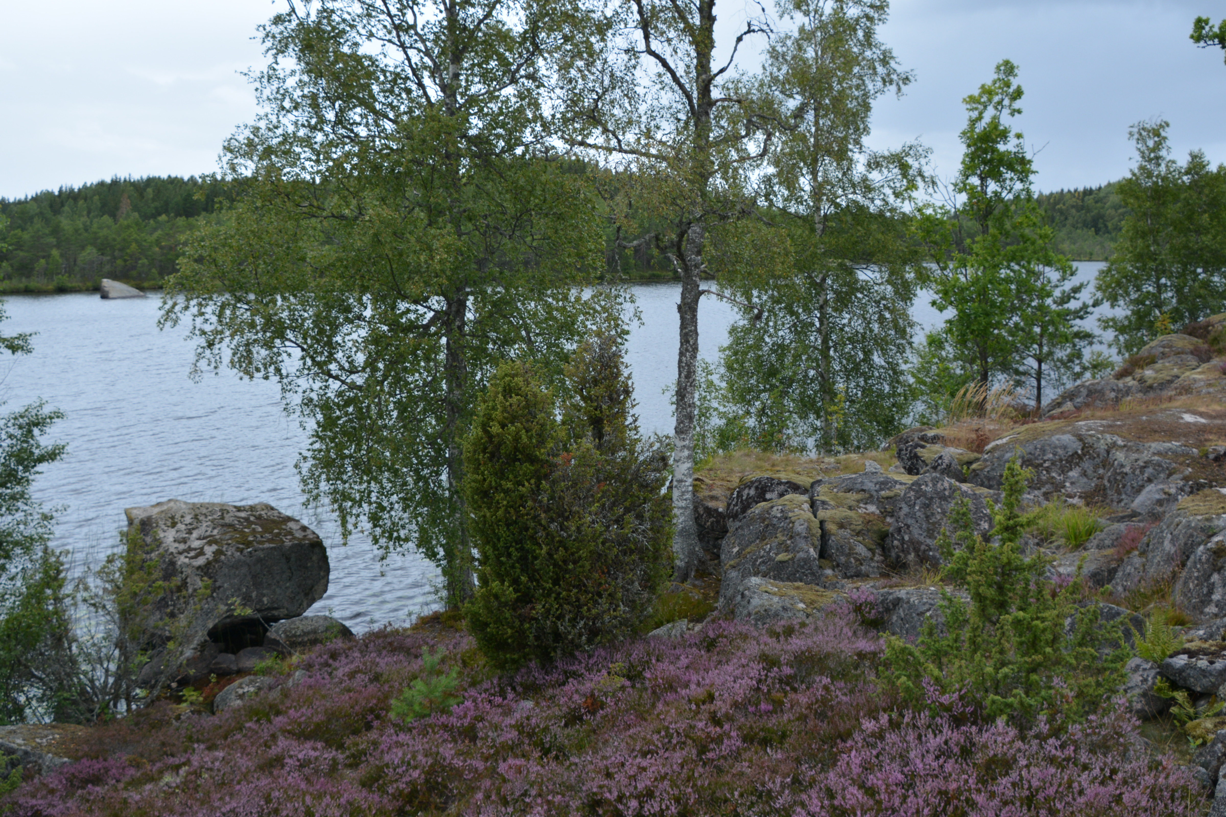 Stensjön i Nykils socken, Linköpings kommun, vid kulturreservatet Öna